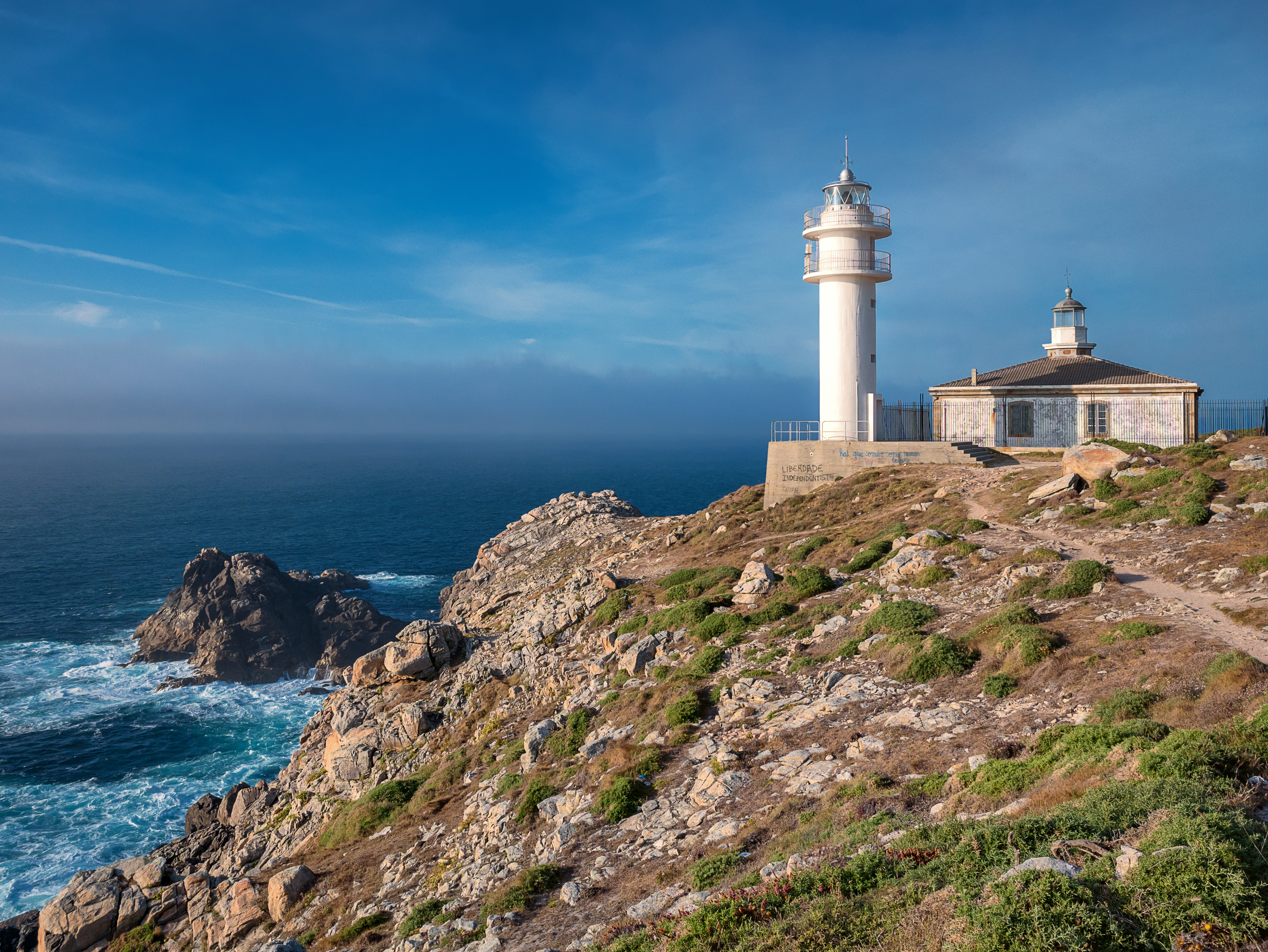 Lighthouse at Cape Touriñán. La Coruña, Galicia, Spain